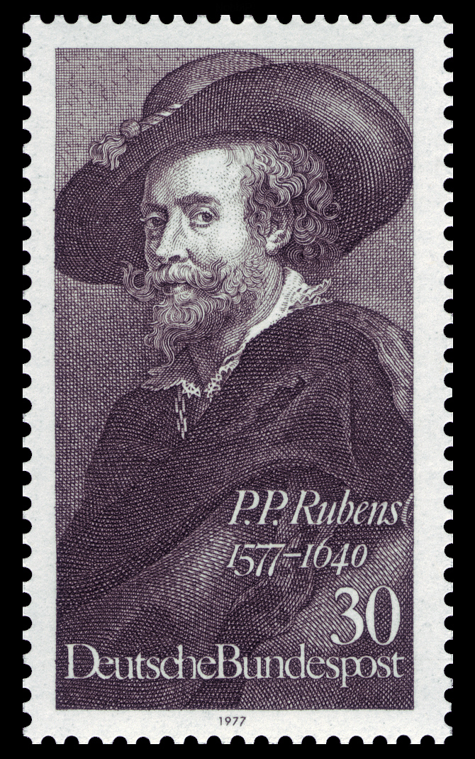 400th day of birth of Peter Paul Rubens